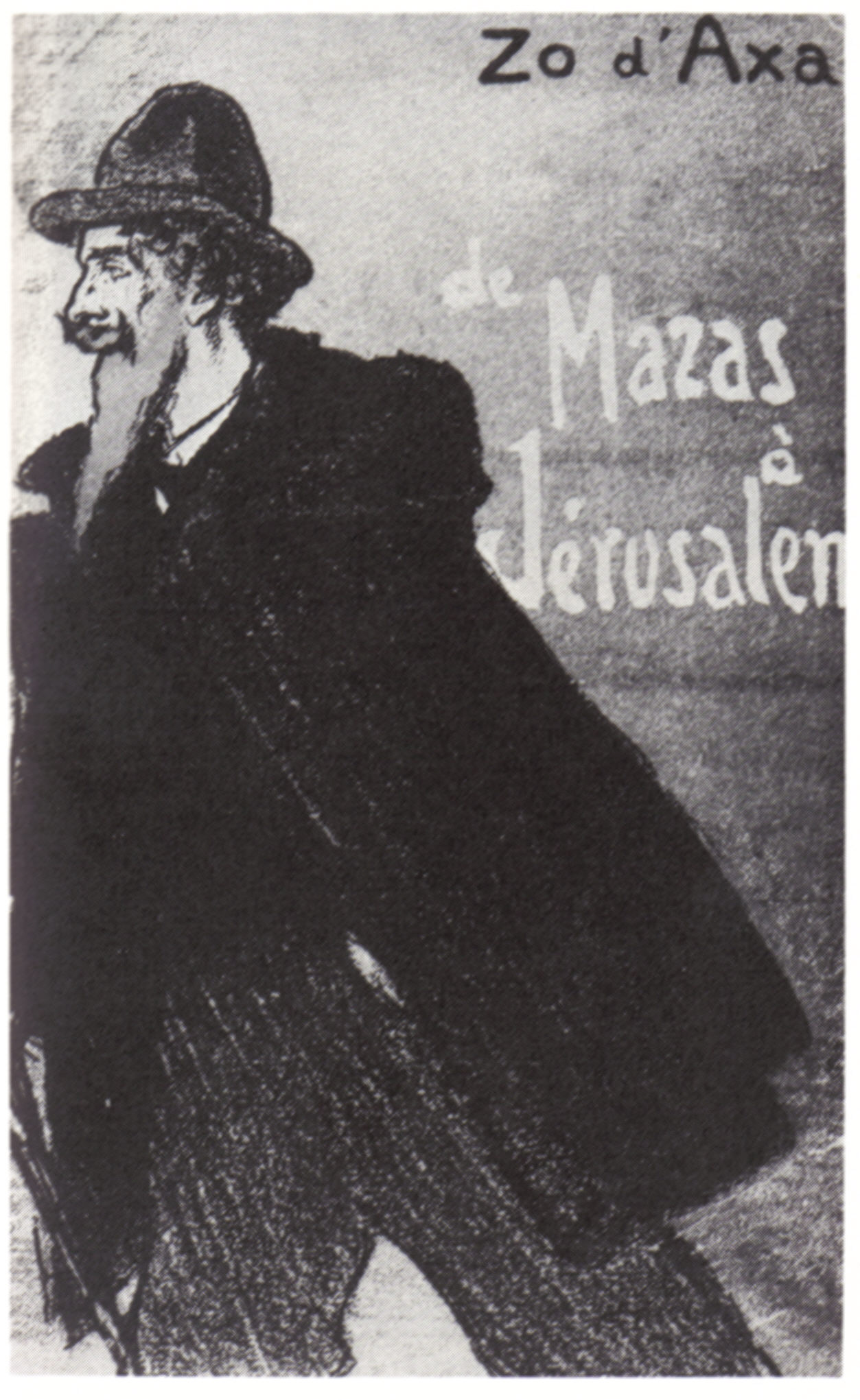 Scan of the Reproduction of the cover of the french book "de Mazas à Jérusalem"